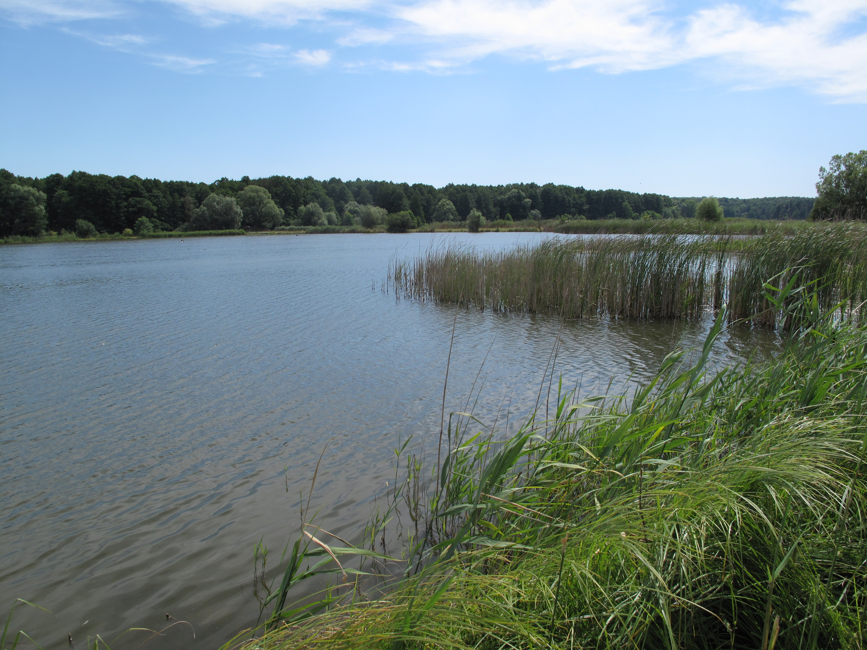 One of the „Karlsdorfer Teiche“ in Karlsdorf. Karlsdorf is a part of Altfriedland, a village of the municipality Neuhardenberg in the District Märkisch-Oderland, Brandenburg, Germany. Karlsdorf was founded in 1774/75 as colonist village and named after Charles Frederick Albert, Margrave of Brandenburg-Schwedt, landlord in Friedland. The village is especially known for its fishing waters „Karlsdorfer Teiche“.